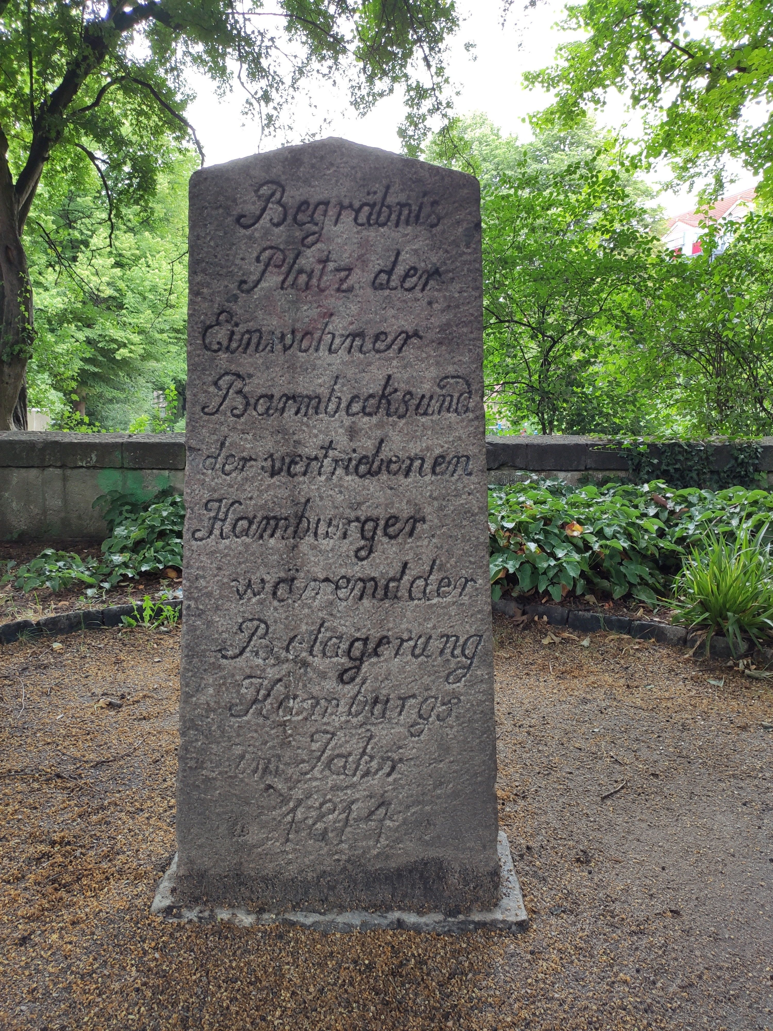 Hamburg-Barmbek, Germany, Pfennigsbusch/edge Kraepelinweg: front side of monolith to remember people who died in 1814 in Barmbek by hunger, desease and cold after expulsion out of Hamburg by Davoust.